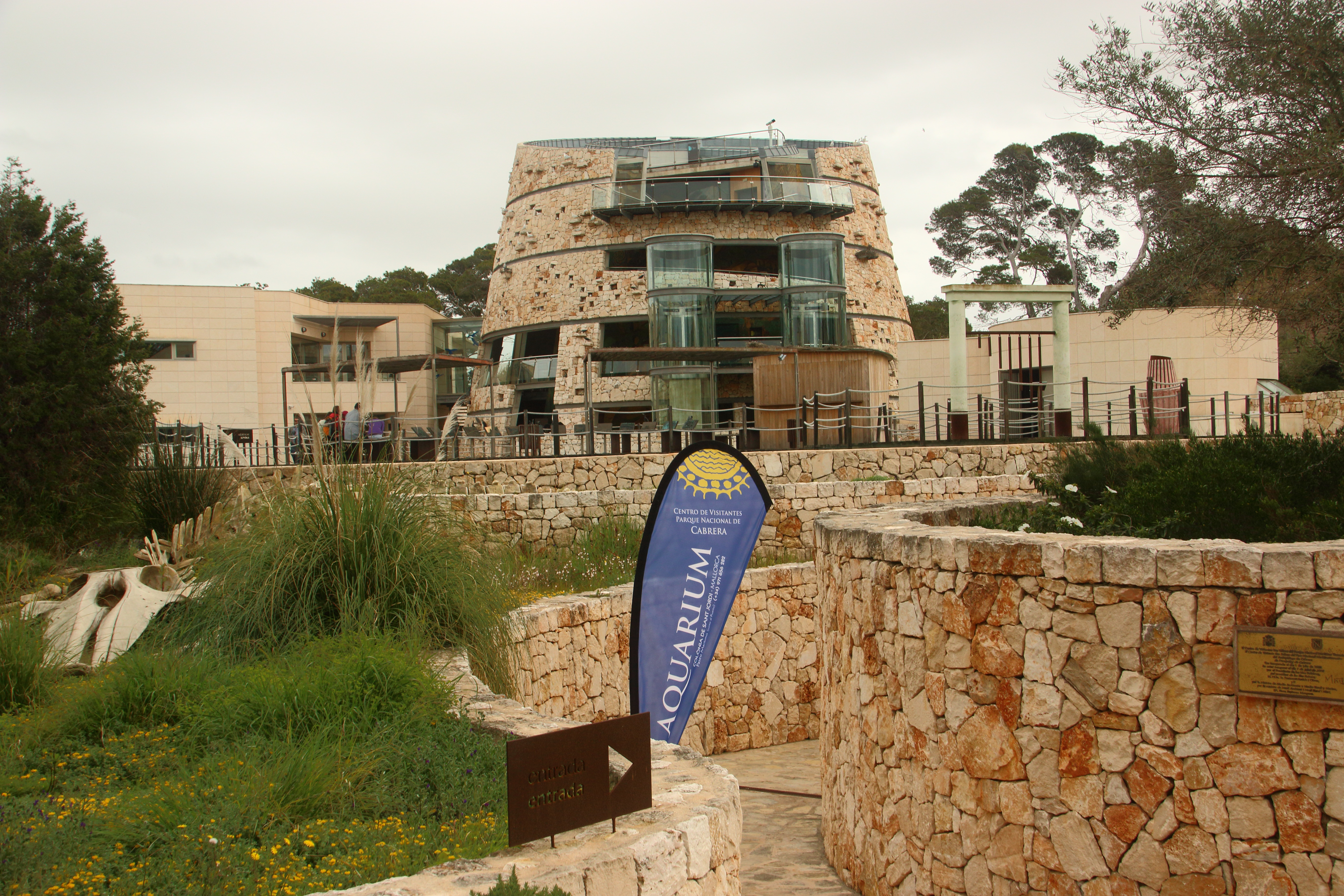 Visitor centre of the Cabrera Archipelago National Park